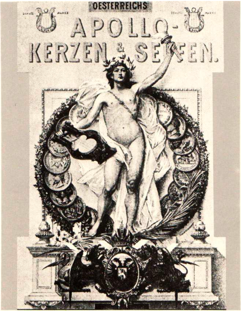 "Apollo" soap and candles advertisement.